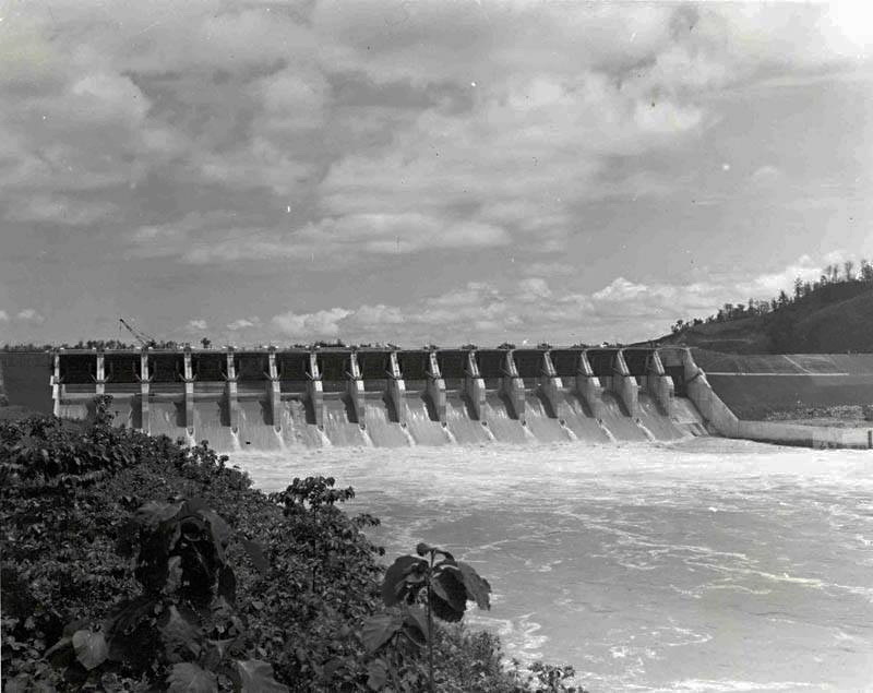 Kaptai Hydro Power Plant taken 1965.